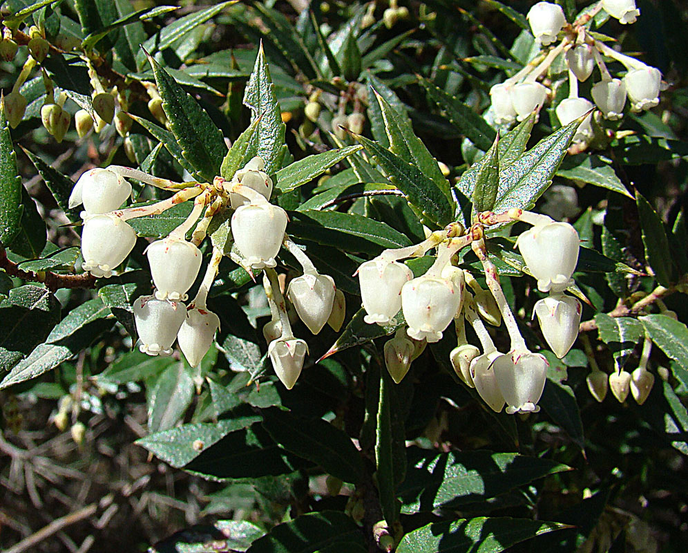 A Chaura from the Chilean Lake District, better known as G. Phillyreifolia. In context at